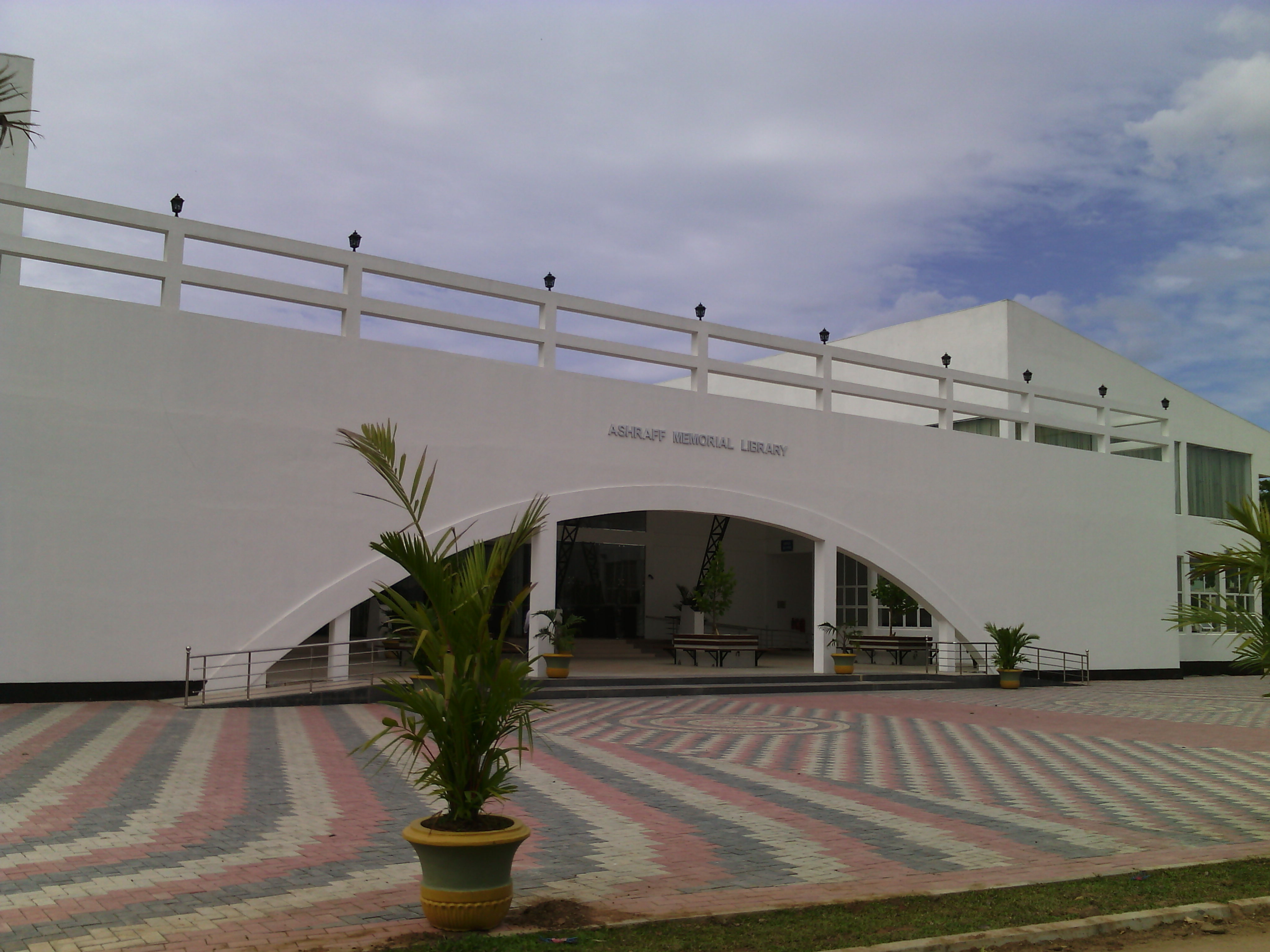 Library of South Eastern University of Sri Lanka, Oluvil සිංහල: ශ්‍රී ලංකා අග්නිදිග විශ්වවිද්‍යාලයීය පුස්තකාලය, ඔලුවිල්